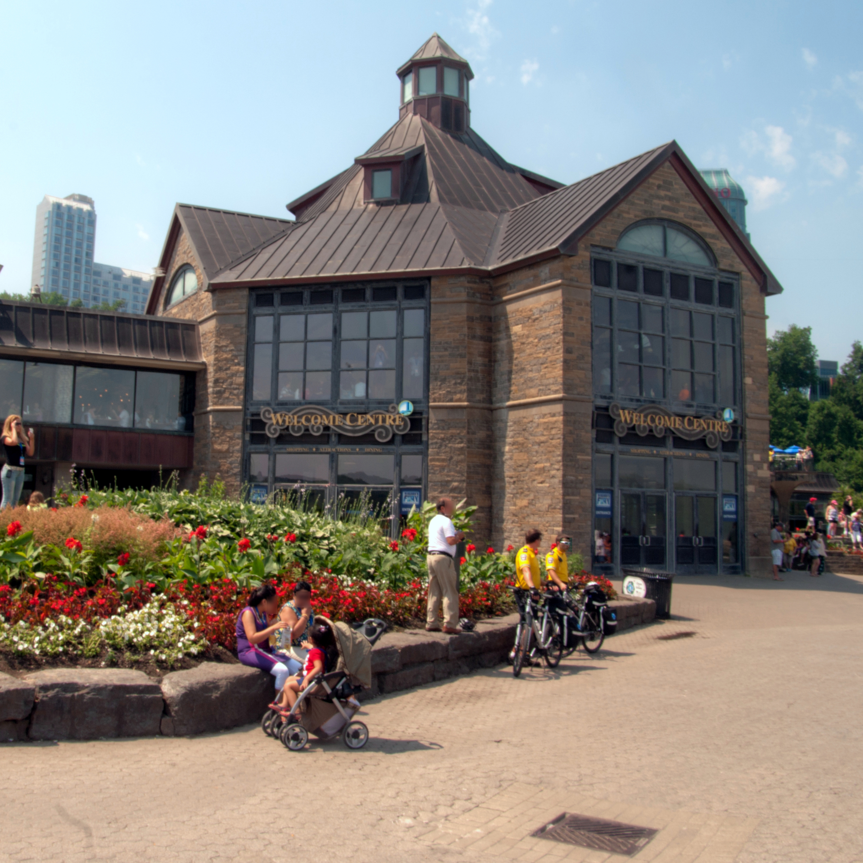 Visitor Center to the Niagara Falls in Niagara Falls, Ontario